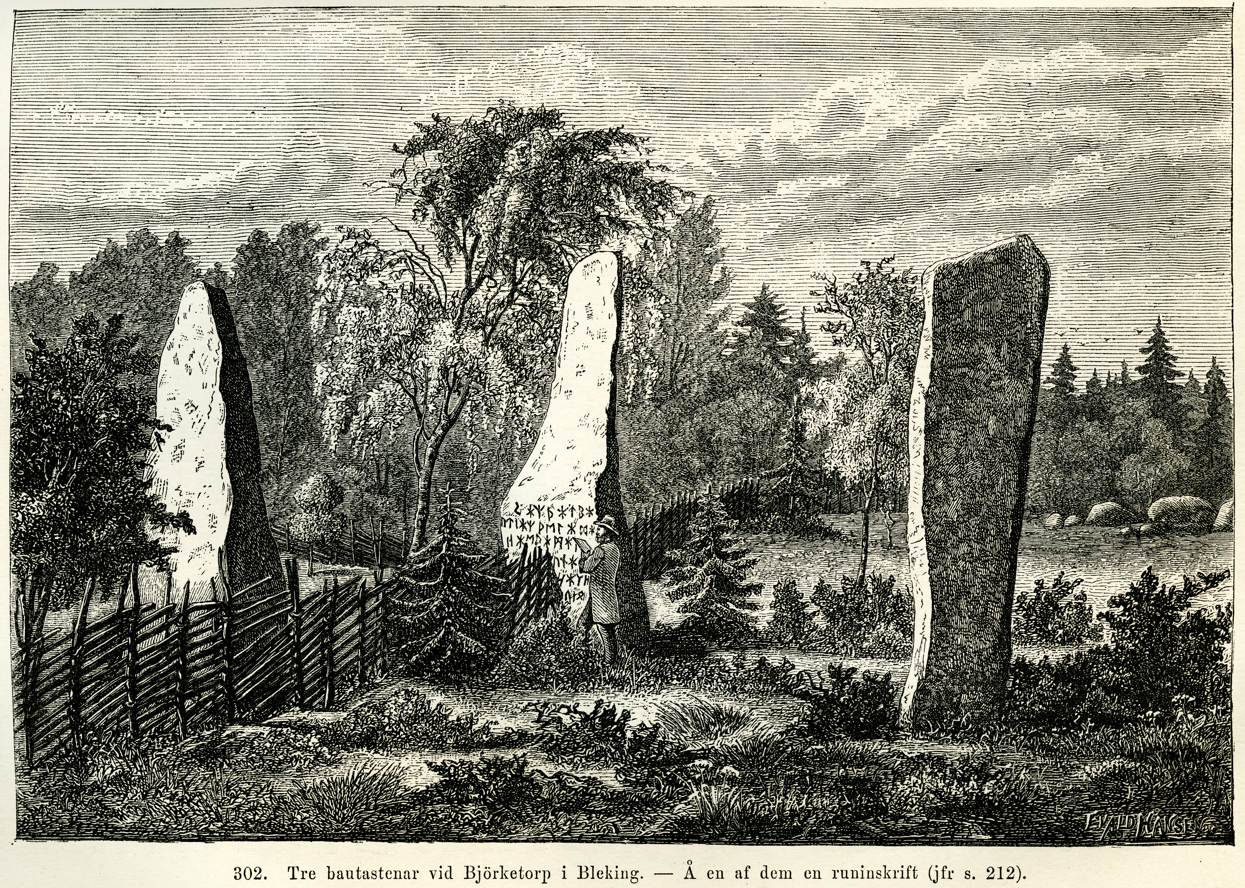 The Björketorp runestone (DR 360) in Listerby parish, Medelstad hundred, Ronneby municipality, Blekinge, Sweden.